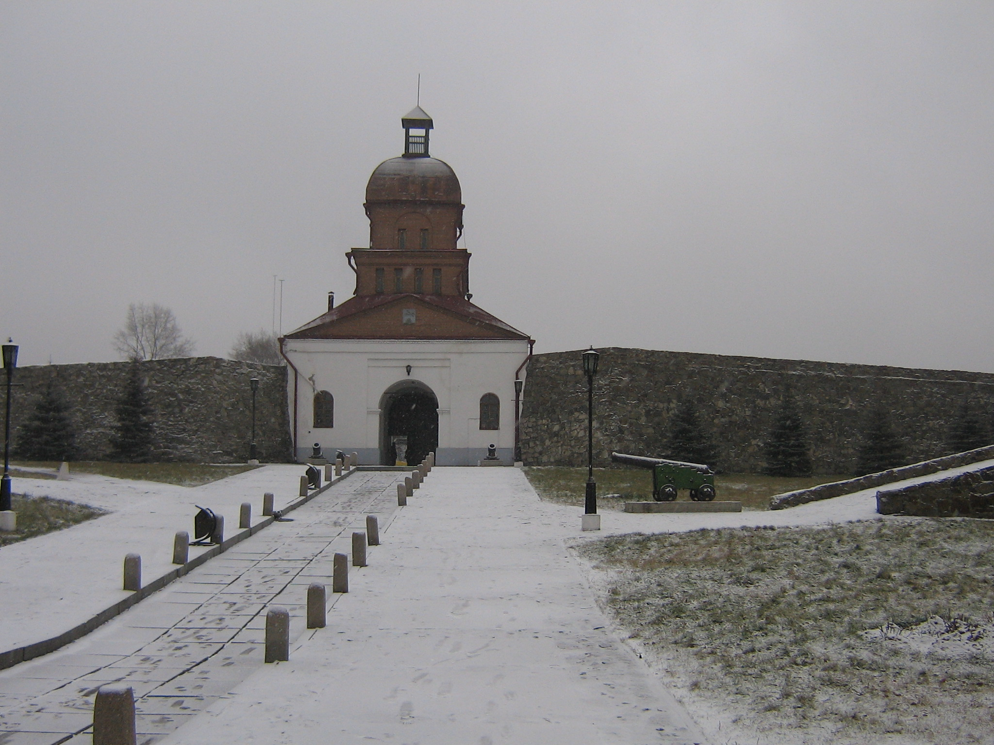 The Fortress of Kuznetsk, November 2006.